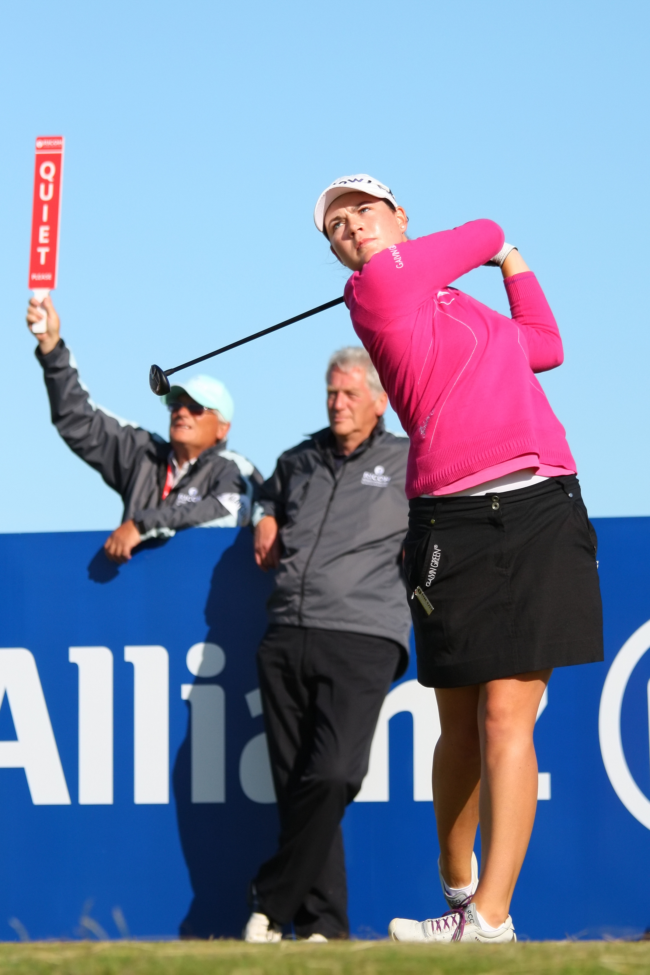 ST ANDREWS, SCOTLAND – AUGUST 02: Caroline Masson of Germany tees off on the 10th hole during second round of 2013 Ricoh Women's British Open held at St Andrews Old Course on August 2, 2013 in St Andrews, Scotland. (Photo by Wojciech Migda)